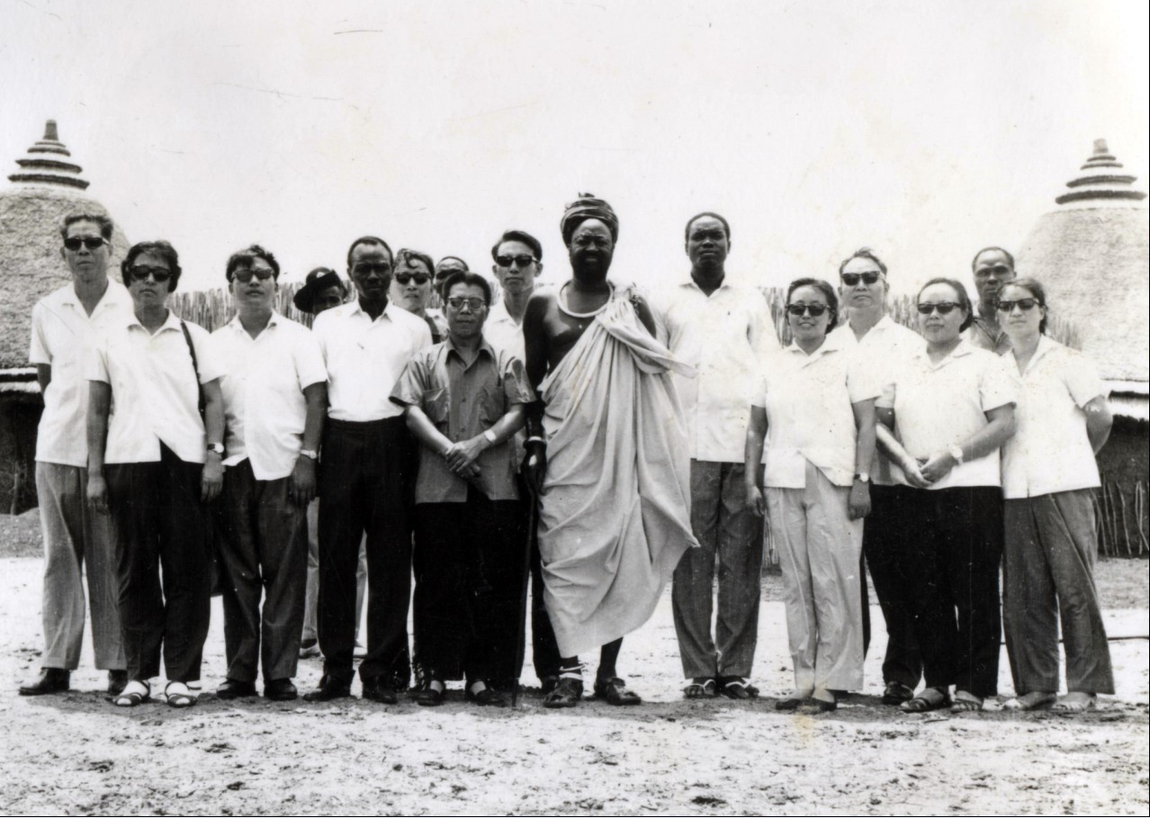 Shilluk (Chollo) King Ayang